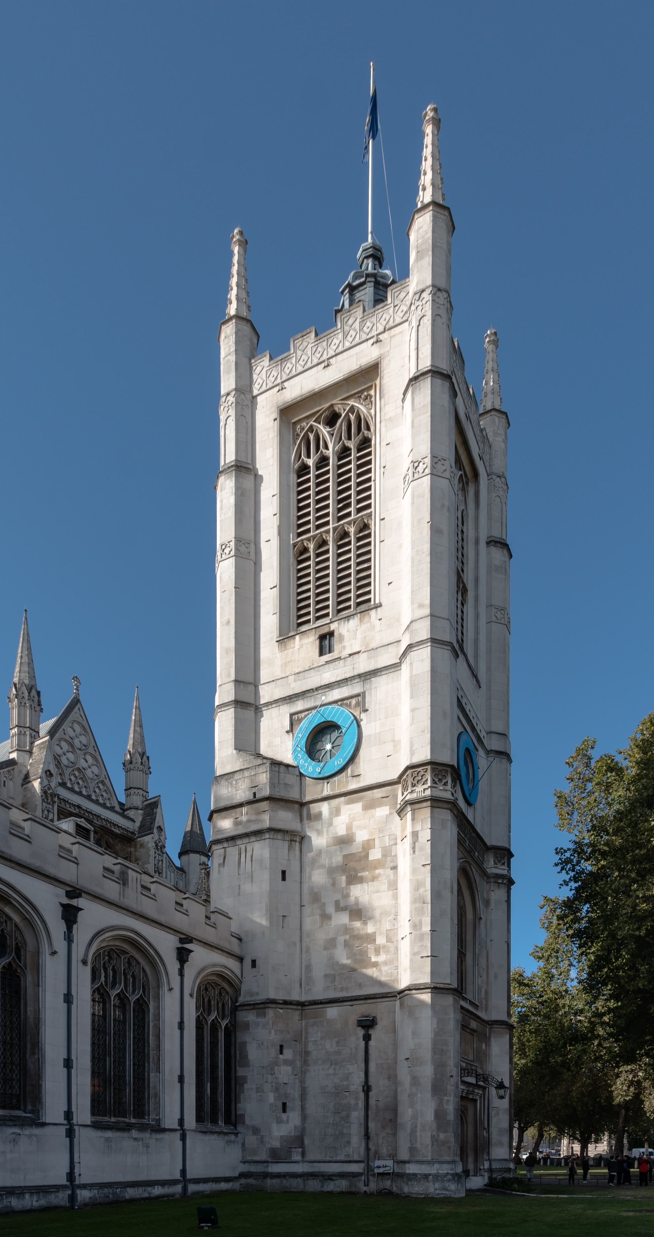 St Margaret's, Westminster, London, England, United Kingdom